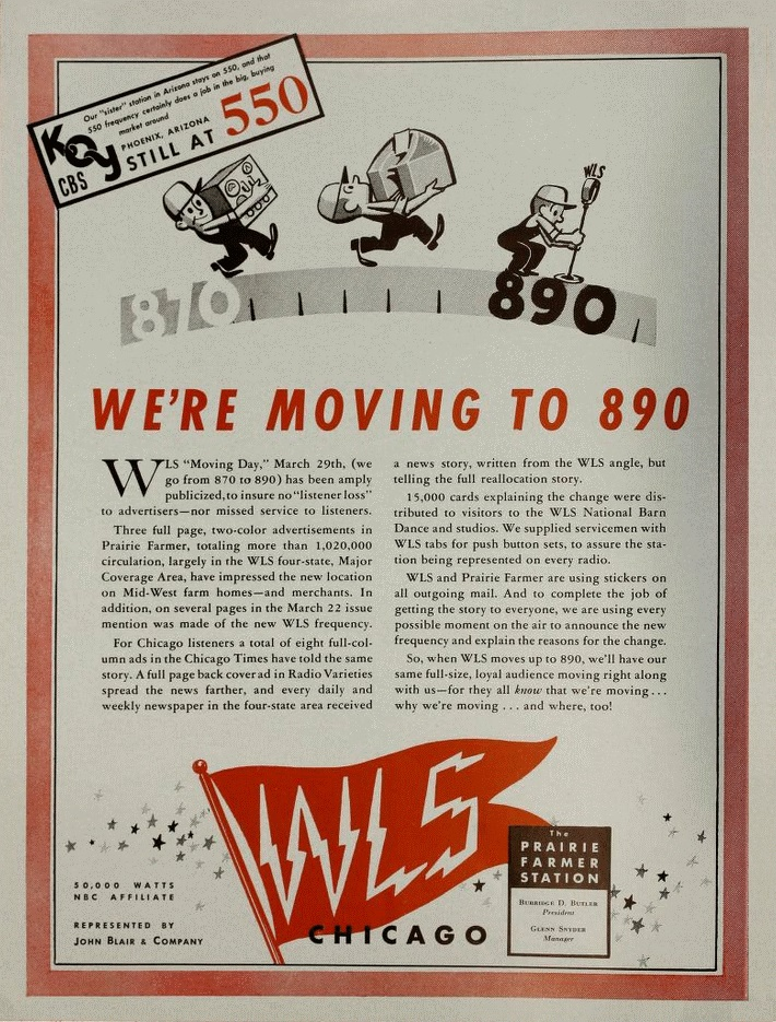 March 29, 1941 was informally know as "moving day", when a majority of radio stations in North America moved to new transmitting frequencies, as part of the implementation of the North American Regional Broadcasting Agreement. This advertisement referenced the pending shift of WLS in Chicago from 870 to 890 kHz.